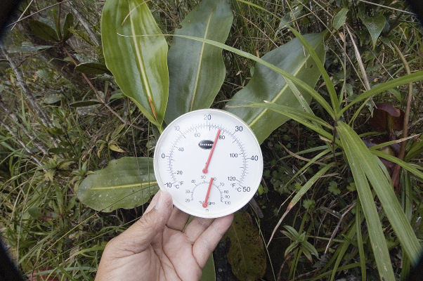 Nepenthes rajah